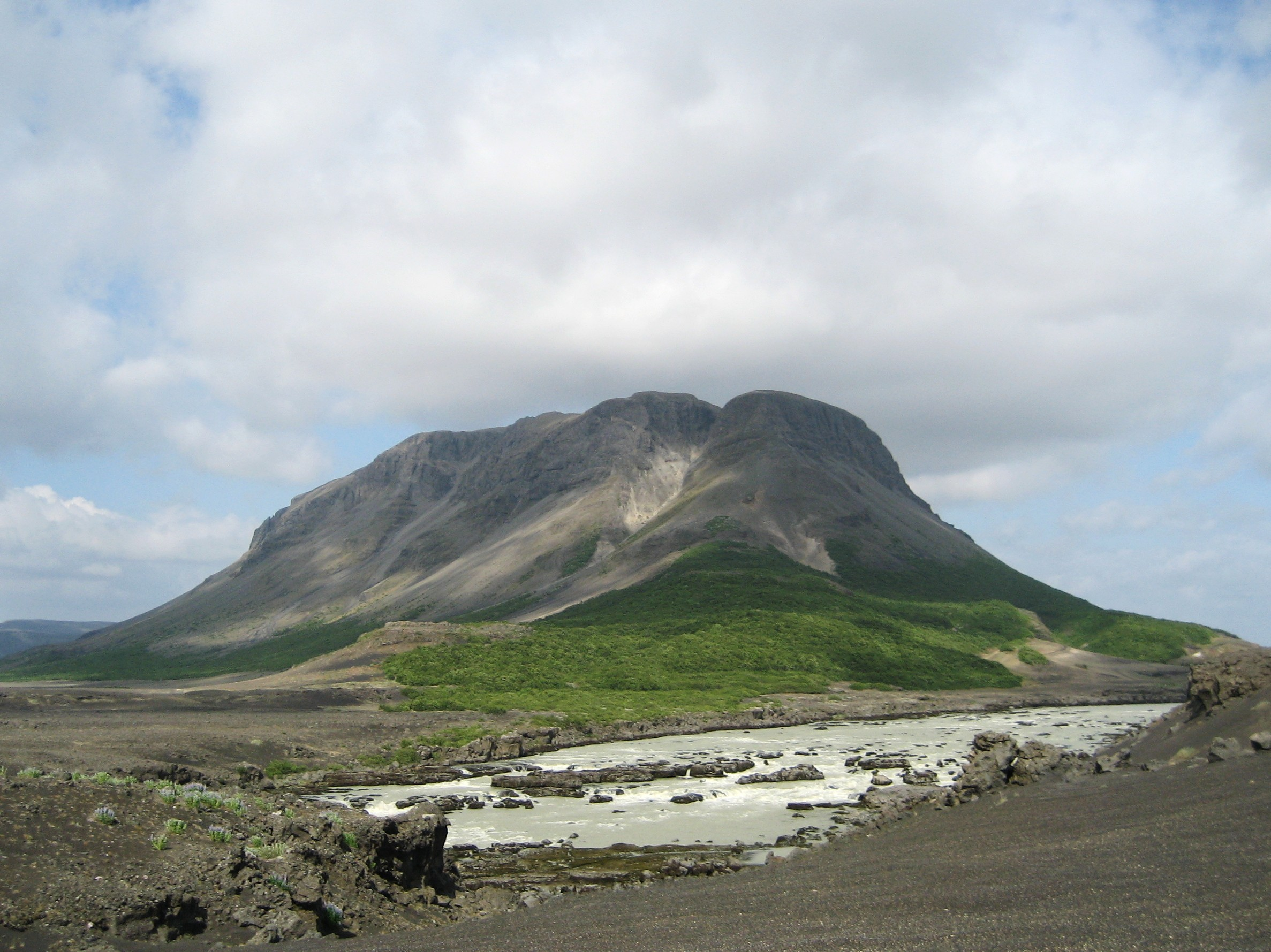 Búrfell, Iceland, as viewed from the south, on a track west of route 26.